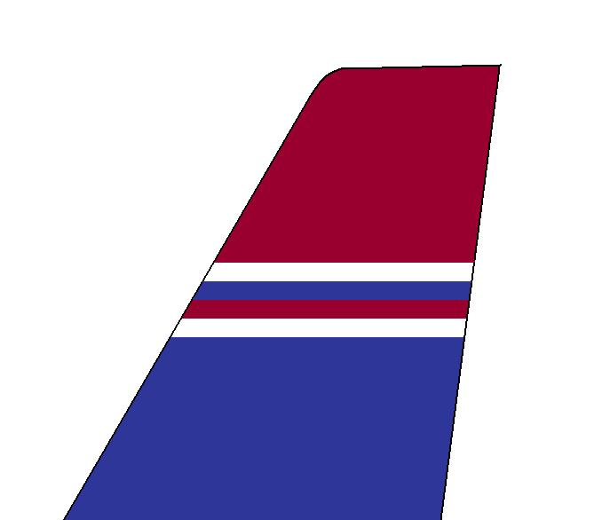 Tail colors of an East-West Airlines Boeing 737 (India)